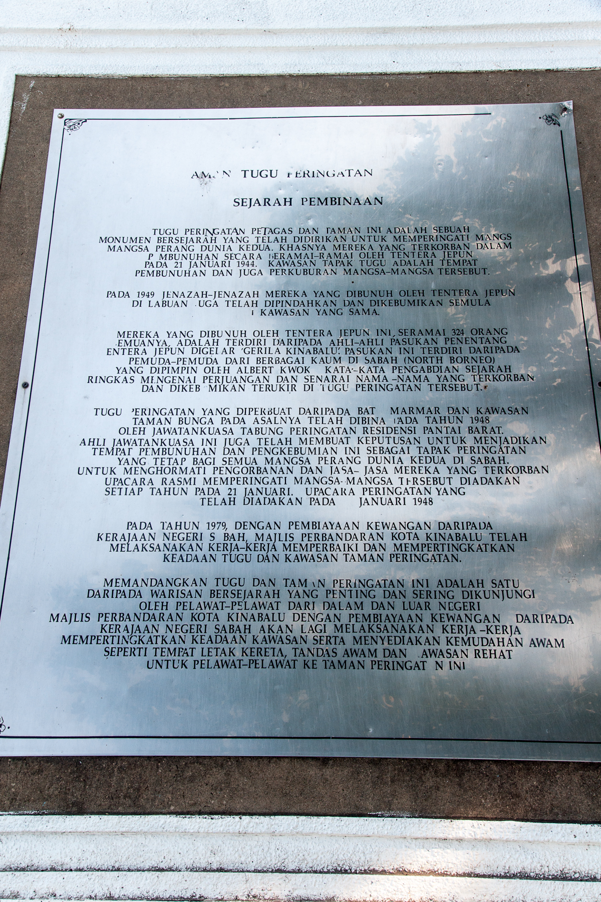 Kg. Petagas, District Putatan: Petagas War Memorial, History Commemoration Plate (malay)